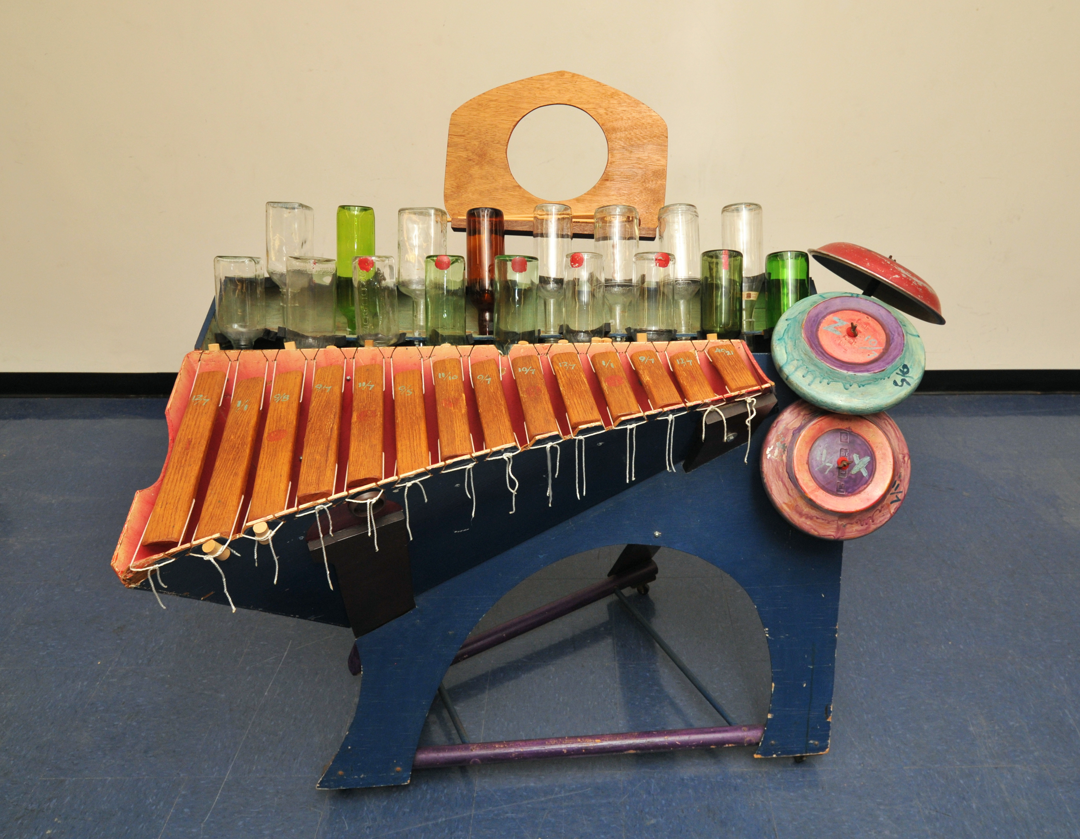 Harry Partch's Zymo-Xyl, a percussion instrument made of bamboo, liquor bottles, and hubcaps. Photographed at the Harry Partch Institute at Montclair State University.